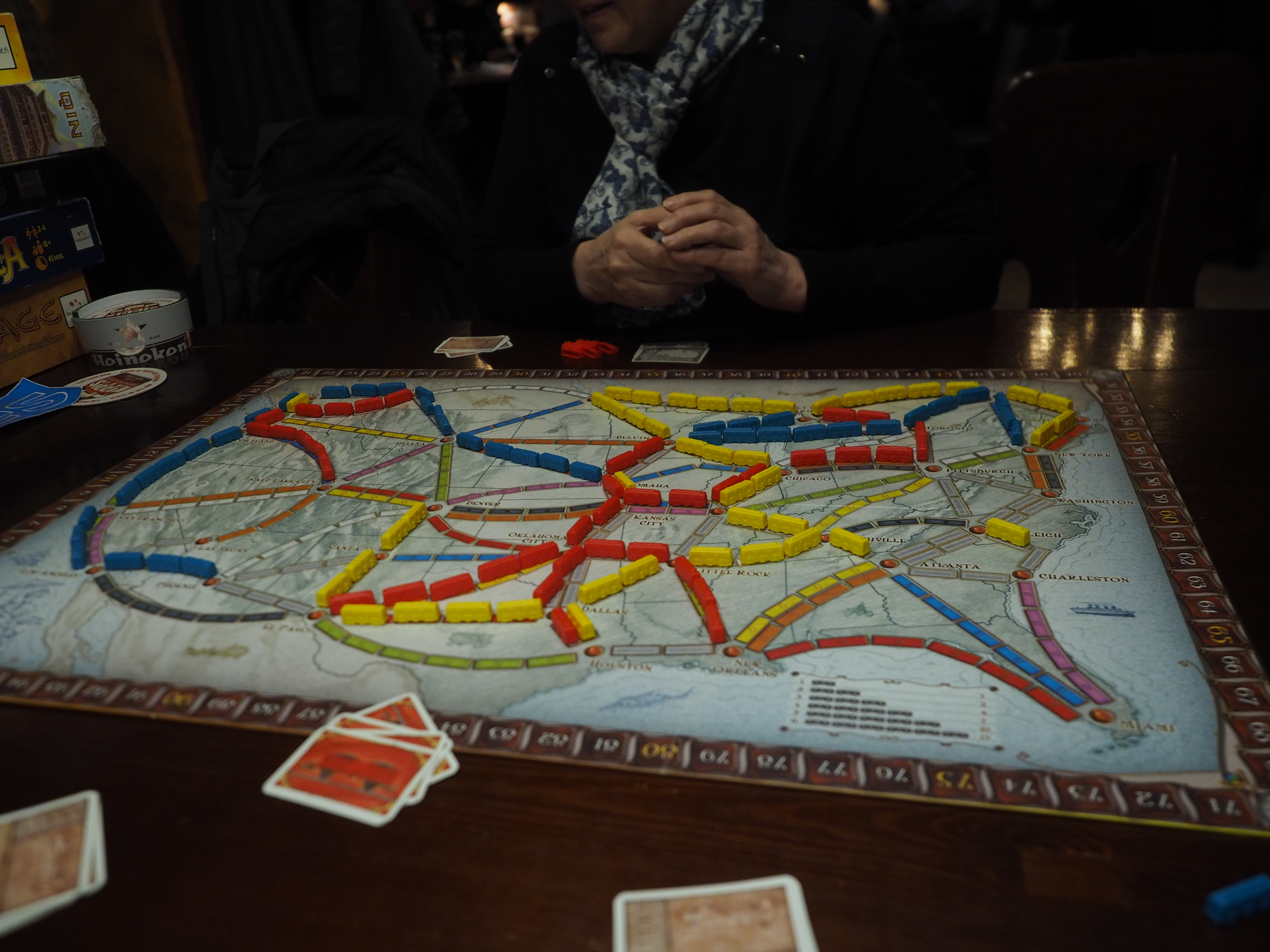 A three-player game of Ticket to Ride at the end of play, played at restaurant Kaisla in Kaisaniemi, Helsinki, Finland. I (playing blue) lost 84 points by failing to connect Duluth and Omaha.